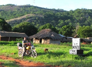 View if Mindu, the nearest village to Namochelia where E.S.Tingatinga was born